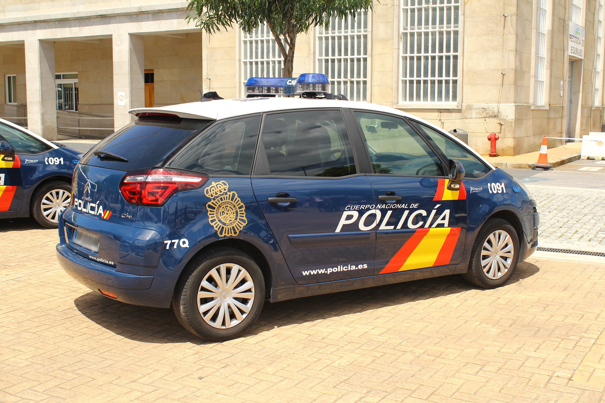 Vigo Police Conference, 22-28 June 2012 From 22th to 28th June 2012 held a Police conference in Vigo, including an exhibition of the National Corp of Police in the Maritime Station of the city. The conference began with a simulation of anti-terrorist operation in the dock of the ferry terminal. The simulation was attended by three members of the Special Operations and Safety Group (GOES) of Galicia, patrol cars, the police helicopter based at the Peinador Airport (carrying an elite shooter of the GOES to support the operation), a unit of dog handlers and agents of the Explosive Ordnance and NRBQ Group, with a deactivation vehicle.